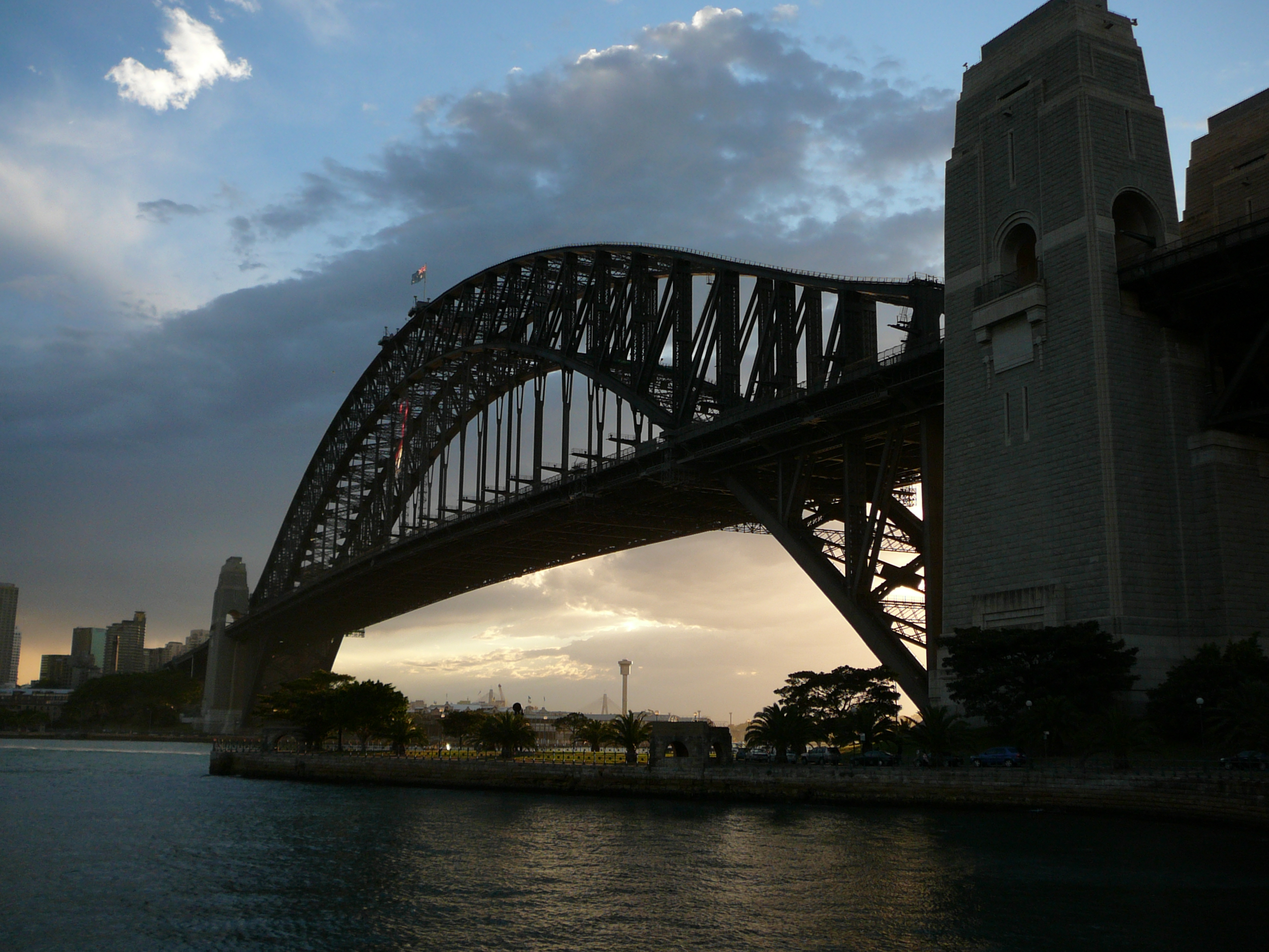 Sydney Harbour Bridge in the late afternoon with the port control tower and top of the Anzac Bridge in the background. City is left of this view.